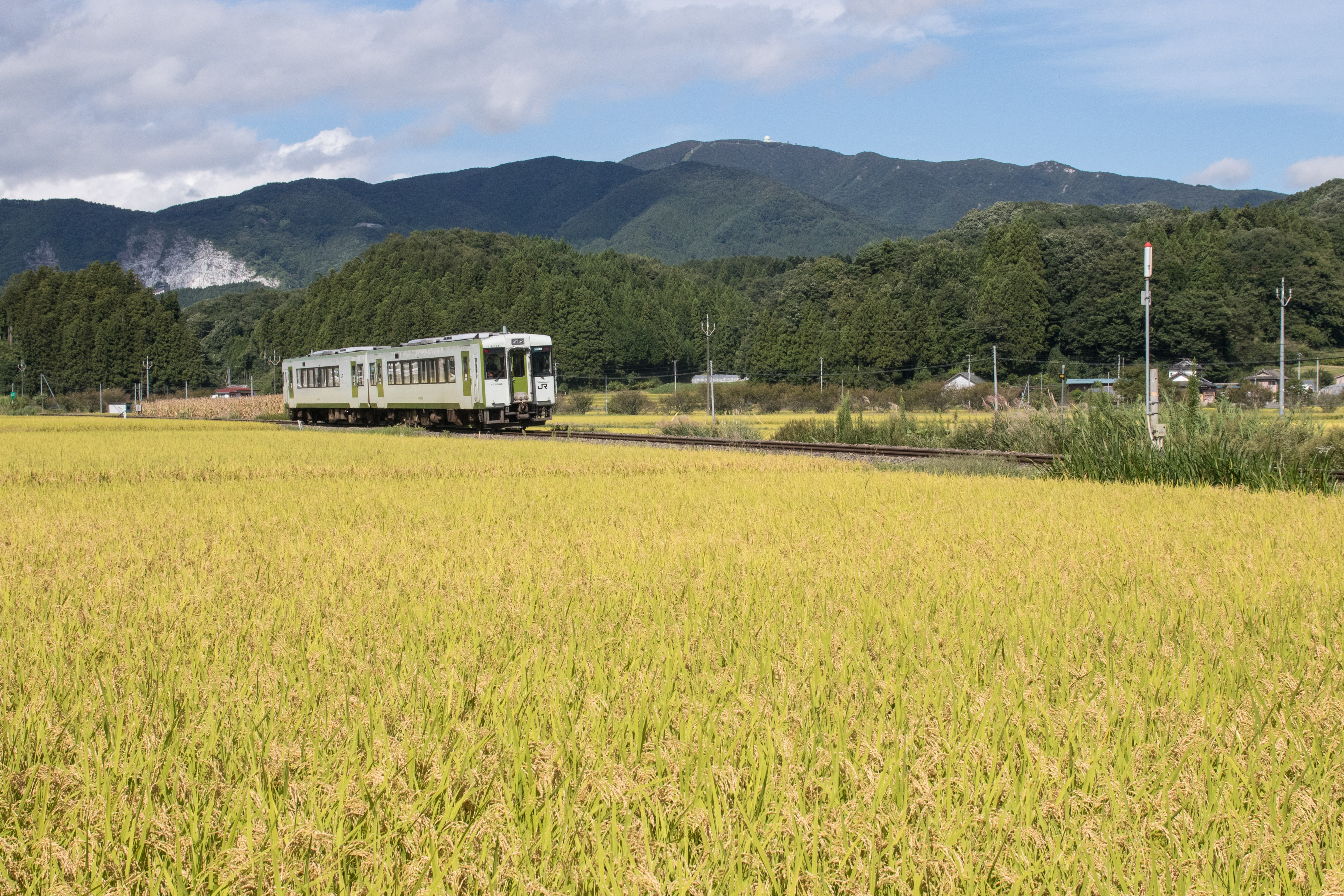 A JR East KiHa 110 series DMU train on the Ban'etsu East Line in Tamura, Fukushima Prefecture, Japan